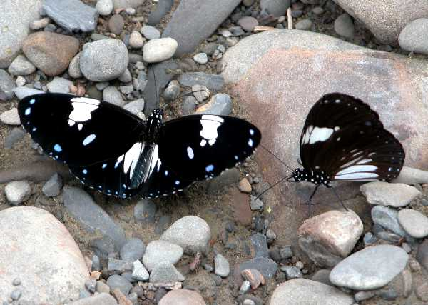 Magpie Crow (Euploea radamanthus) in Jairampur, Arunachal Pradesh, India.